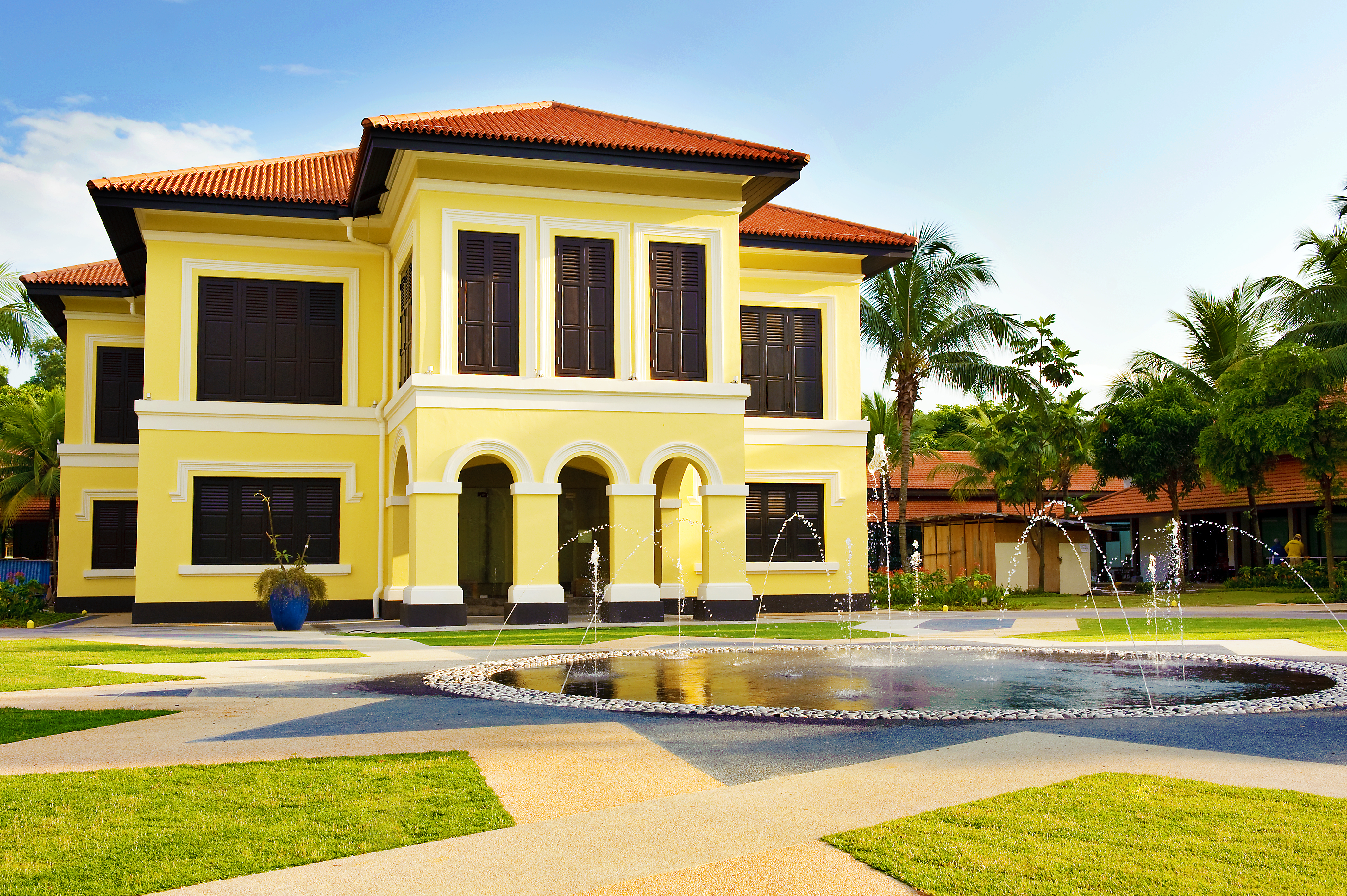 The Malay Heritage Centre (MHC) showcases the history, culture and contributions of the Malay community within the context of Singapore’s history and multi-cultural society.